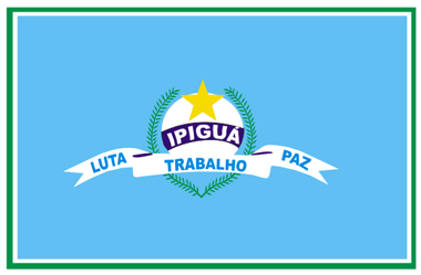 Flag Ipiguá City